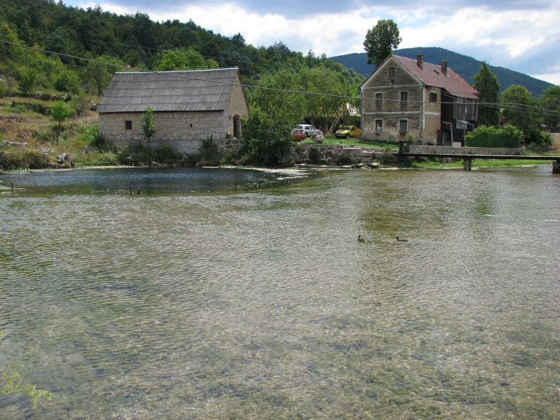 Karst spring of river Gacka, Croatia.